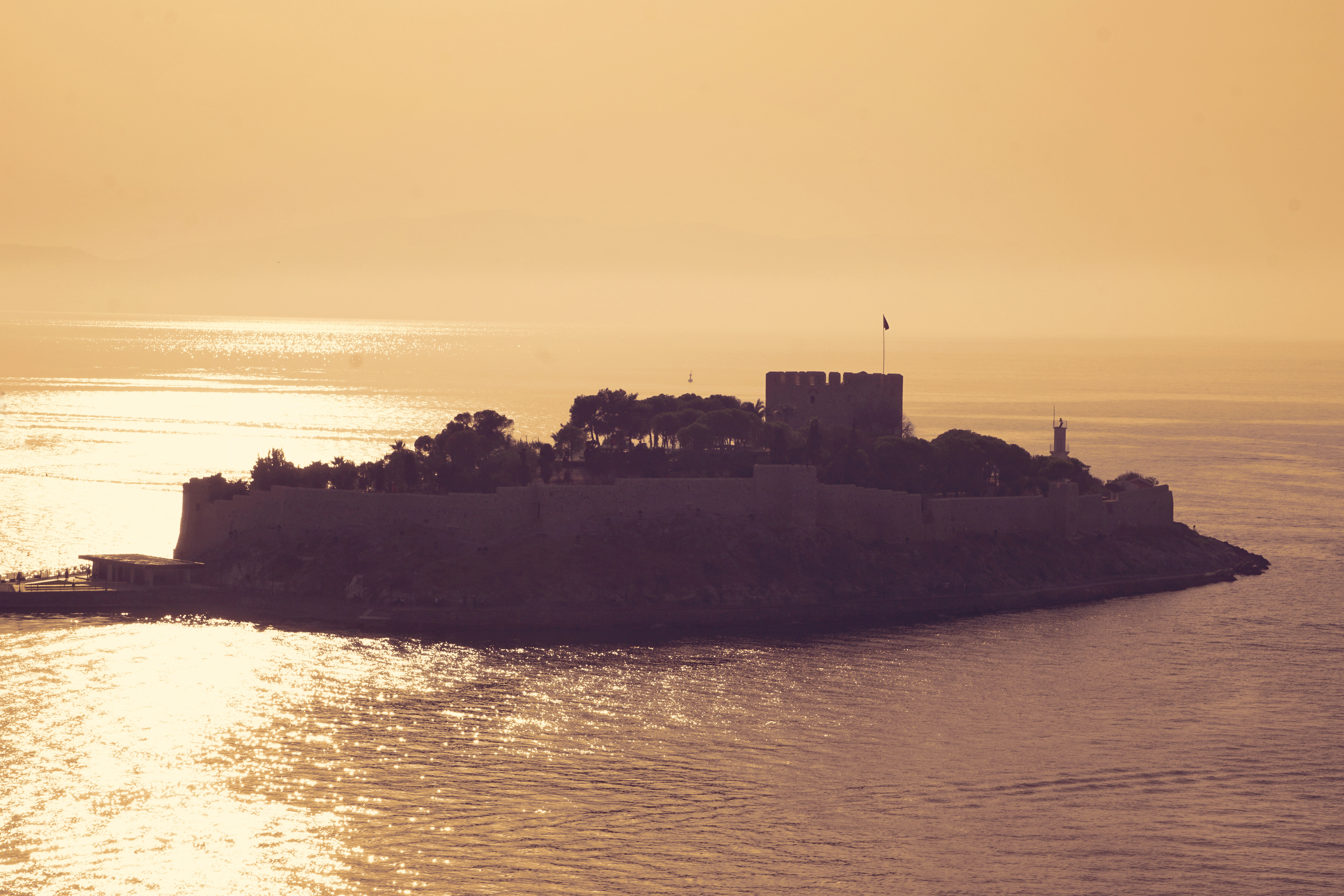 Setting sun at Güvercinada in Kuşadası